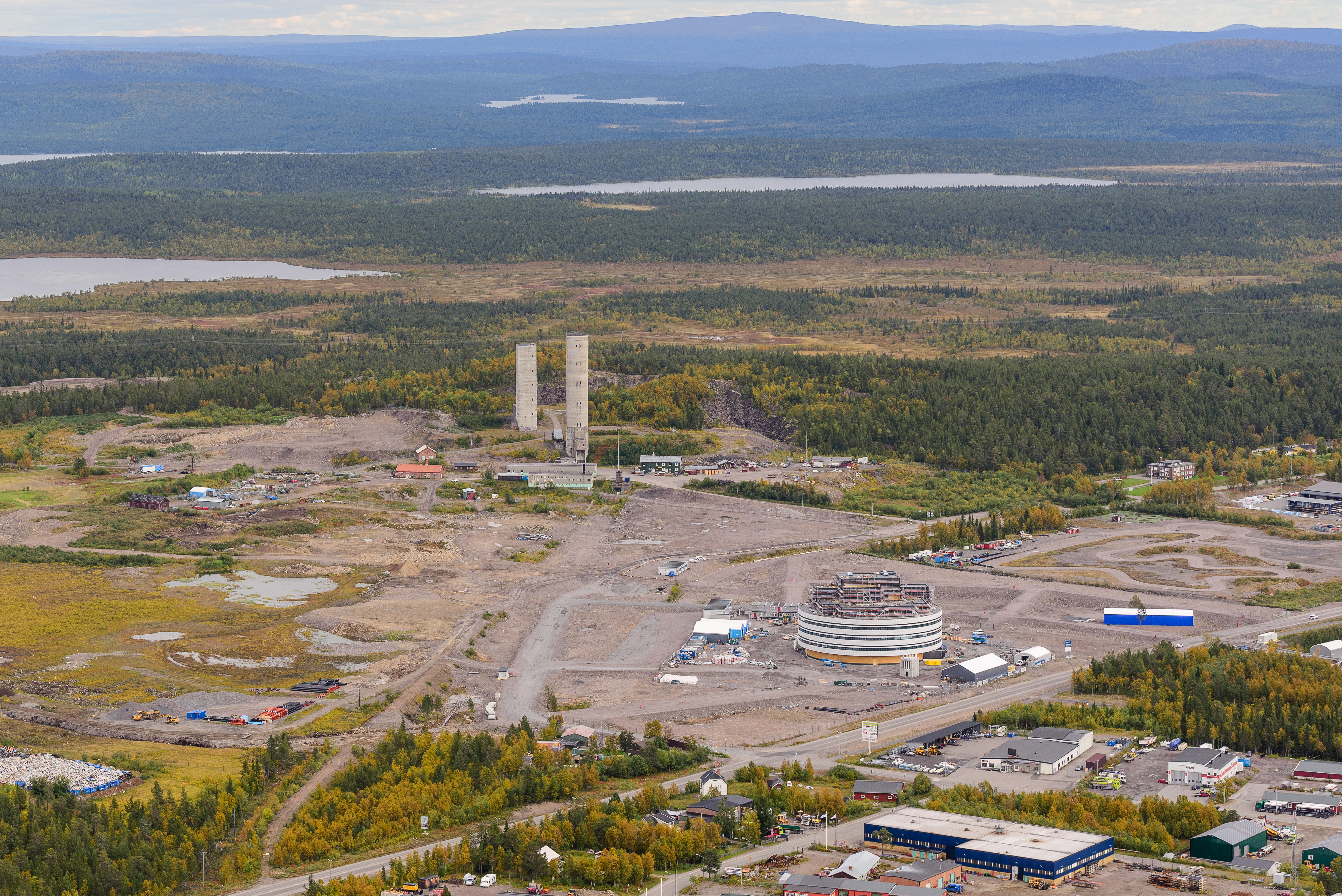 The site of the new town center of Kiruna with the new city hall under construction. In the background, the former Tuolluvaara iron mine.